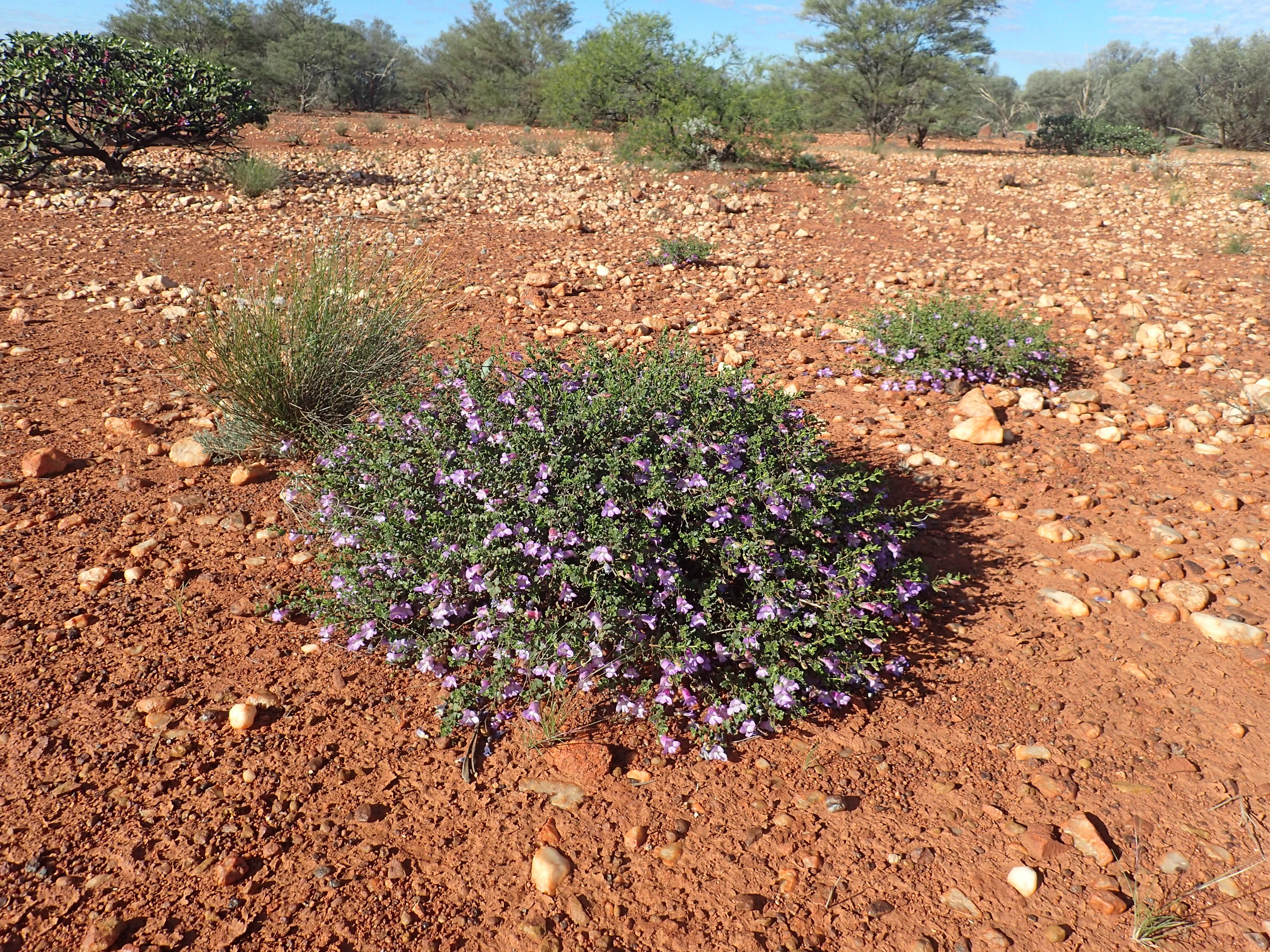 Eremophila incisa growing 40km south of Newman